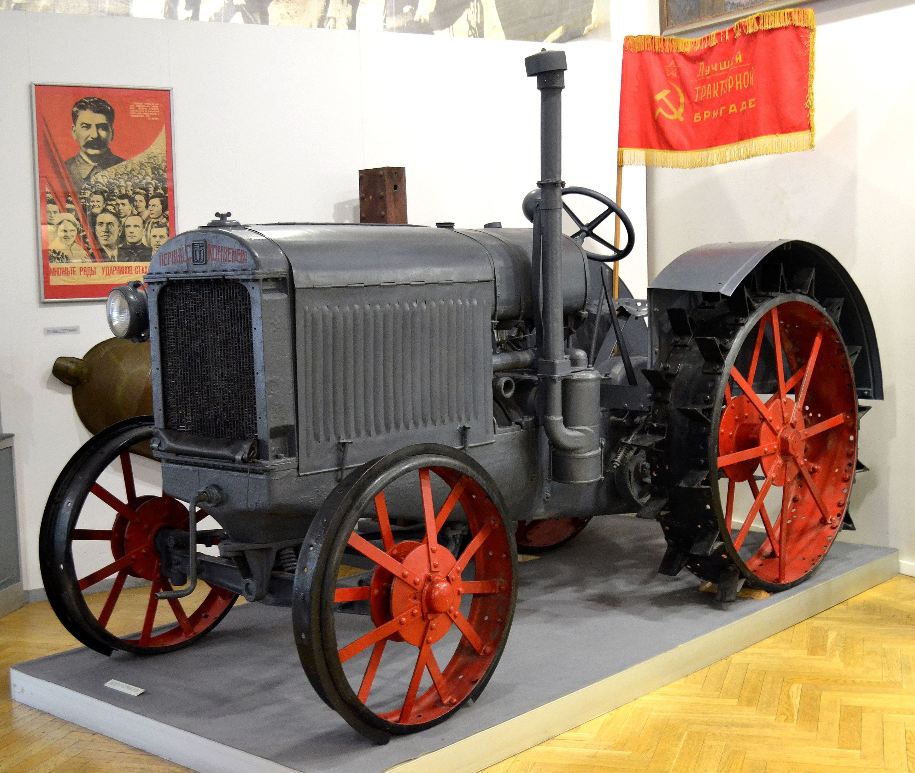 The first tractor STZ-1 (SKhTZ 15/30) came off the assembling line of the Stalingrad Tractor Factory in 1930. The tractor was presented by the work collective of the Stalingrad Tractor Factory to the 16th Congress of the All-Union Communist Party. The State Central Museum of Contemporary History of Russia, Moscow. A photo from the user collection Machinery.